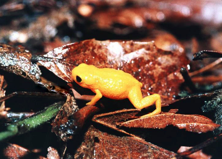 Brachycephalus ephippium